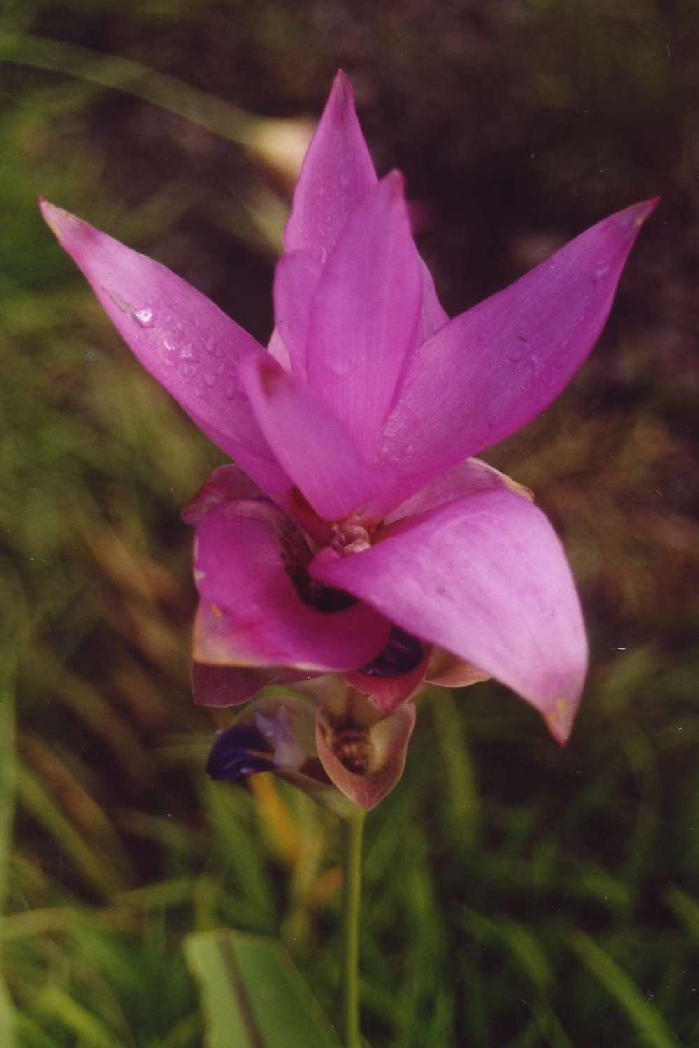 Curcuma alismatifolia (Gagnep.) - Siam Tulip. Photo taken in Pa Hin Ngam national park, Chaiyaphum province, Thailand. Photo taken by User:Ahoerstemeier on July 14 2003.